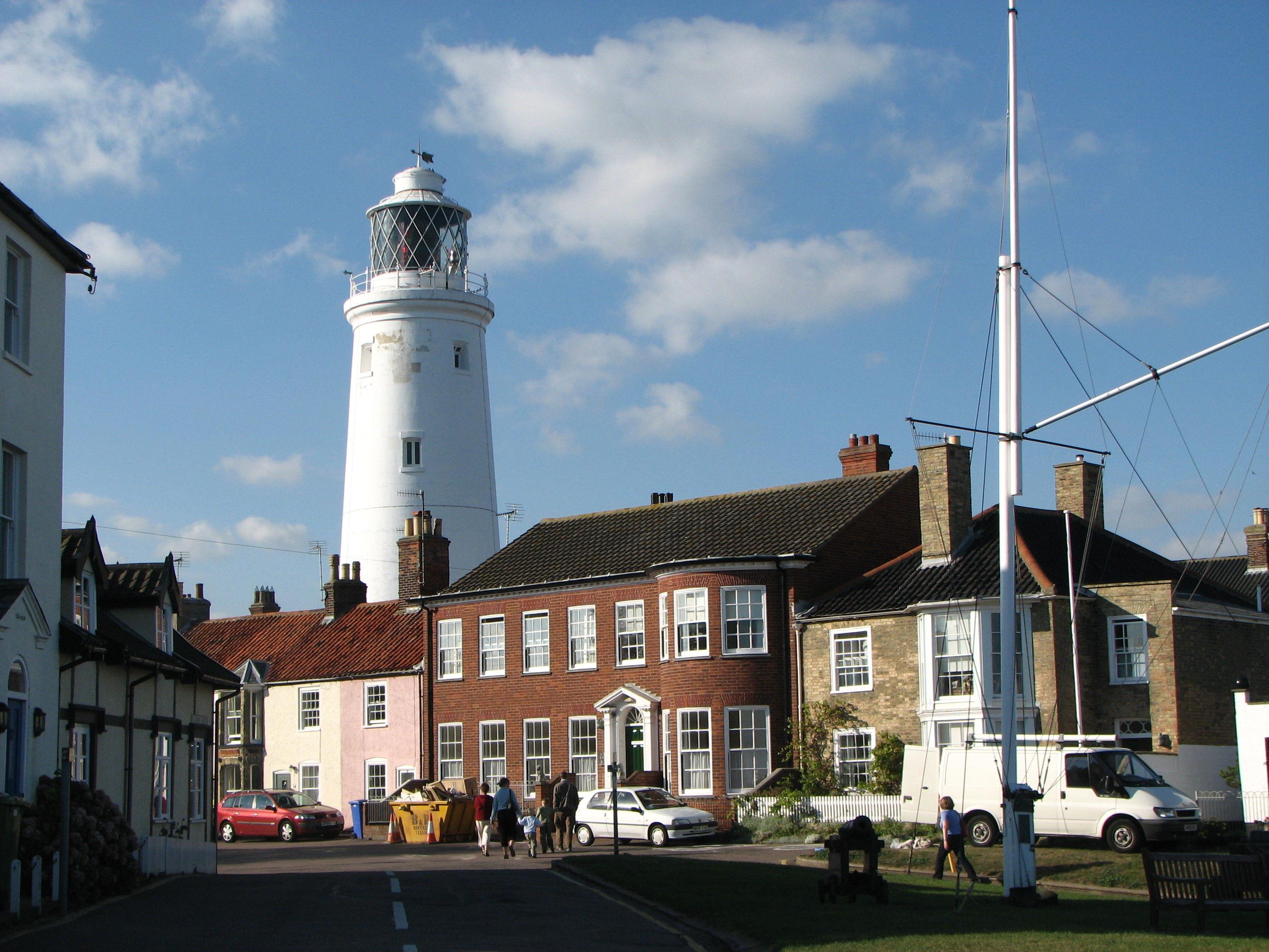 Southwold, Sufflolk, England.